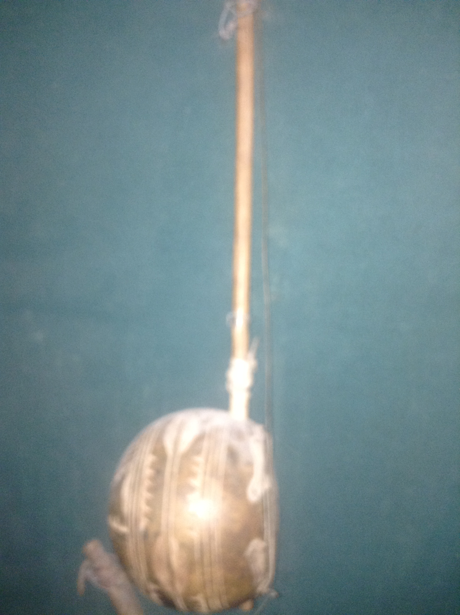 a musical instrument used in composing music and/or used to played during occasions and festivals. it is made of wood and animal skin. This is an image from Nigeria